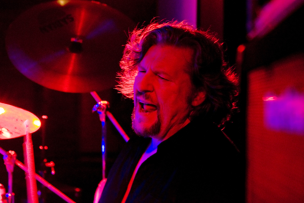 Ted McKenna.